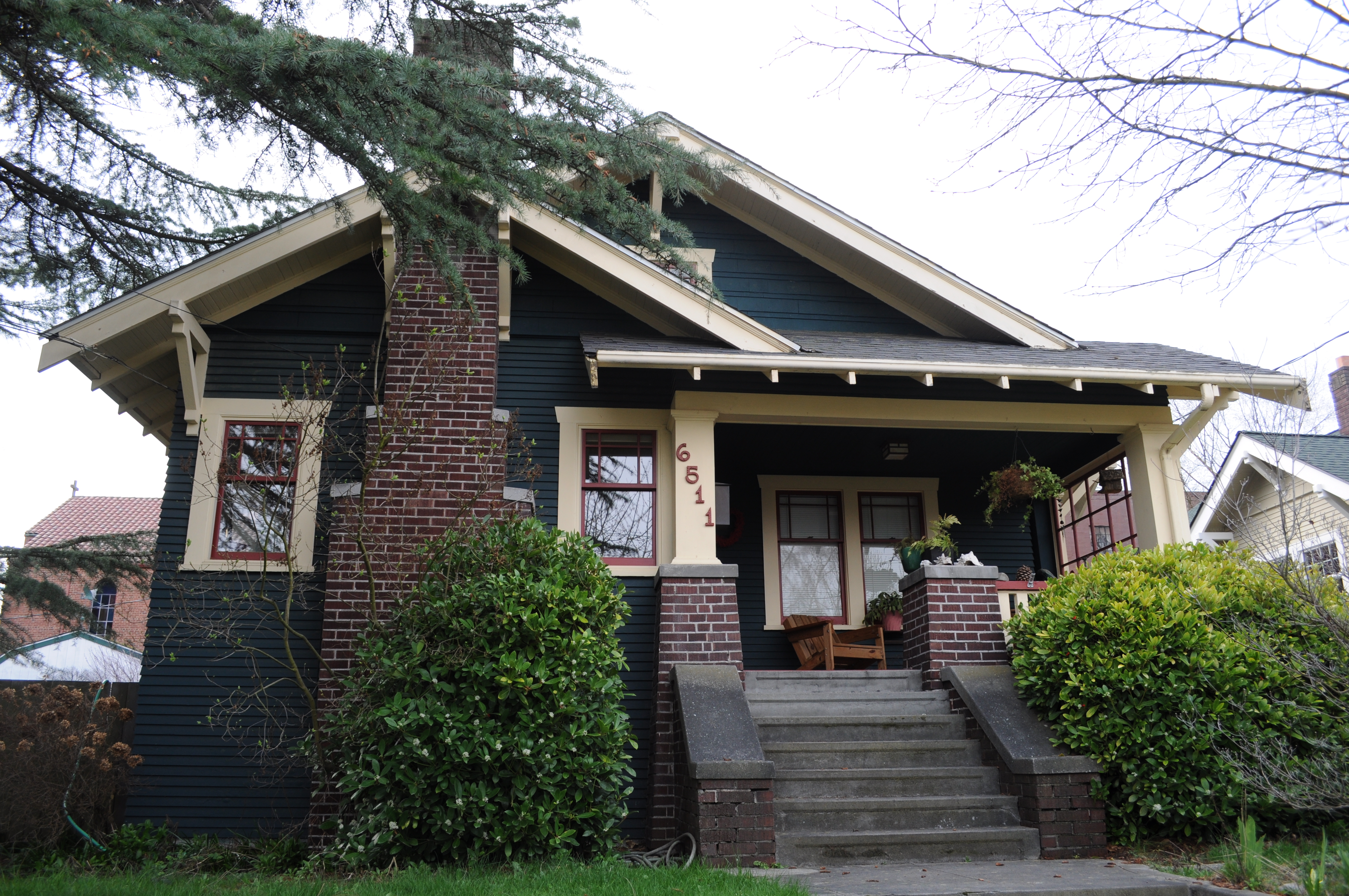 6511 23rd NW, Ballard neighborhood, Seattle, Washington, USA. A typical Craftsman-style bungalow.